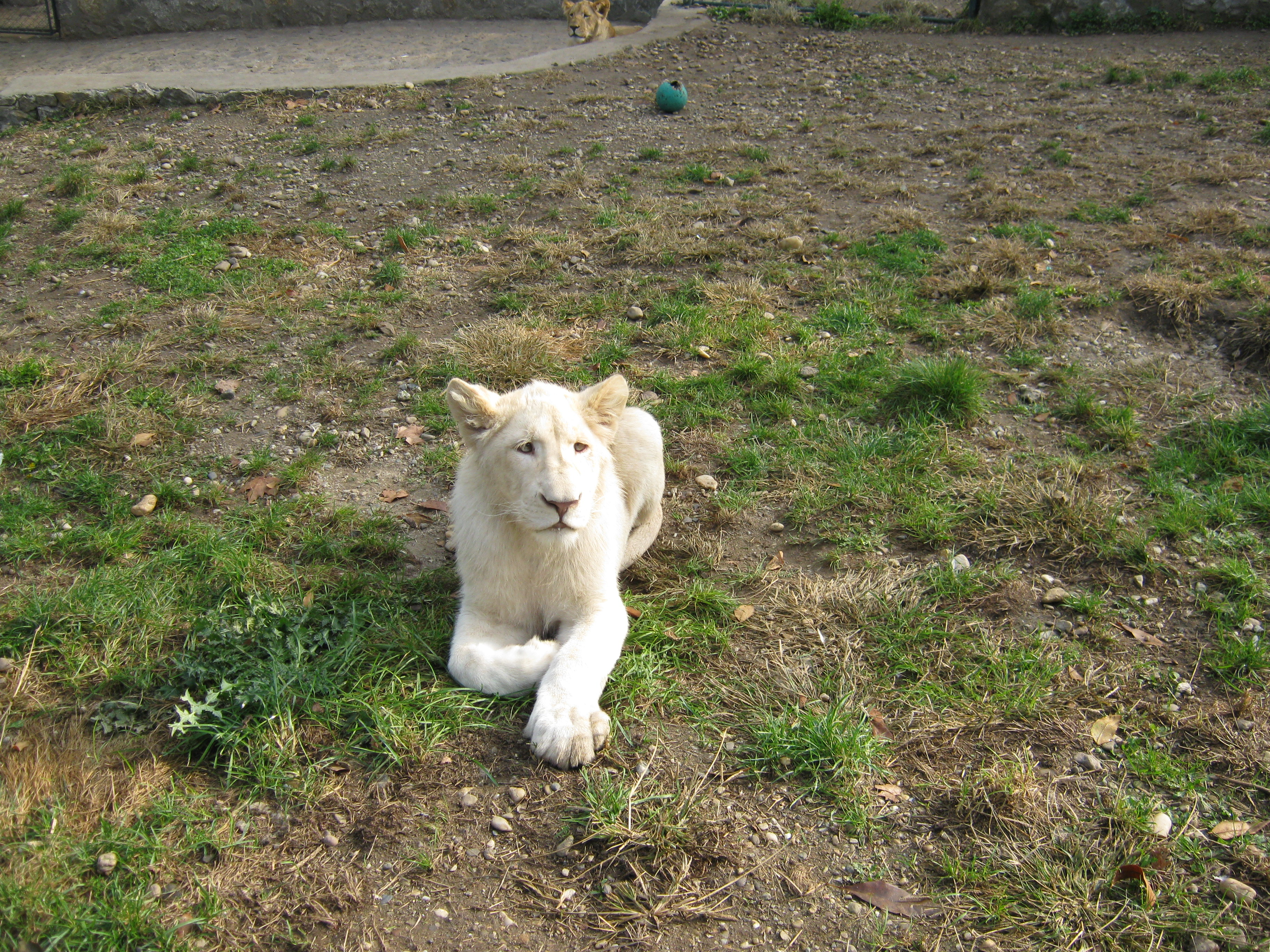 White Lion in Belgrade zoo